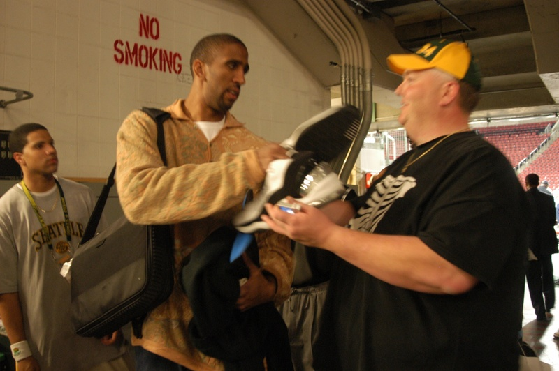 Calvin Booth at KeyArena, Seattle.